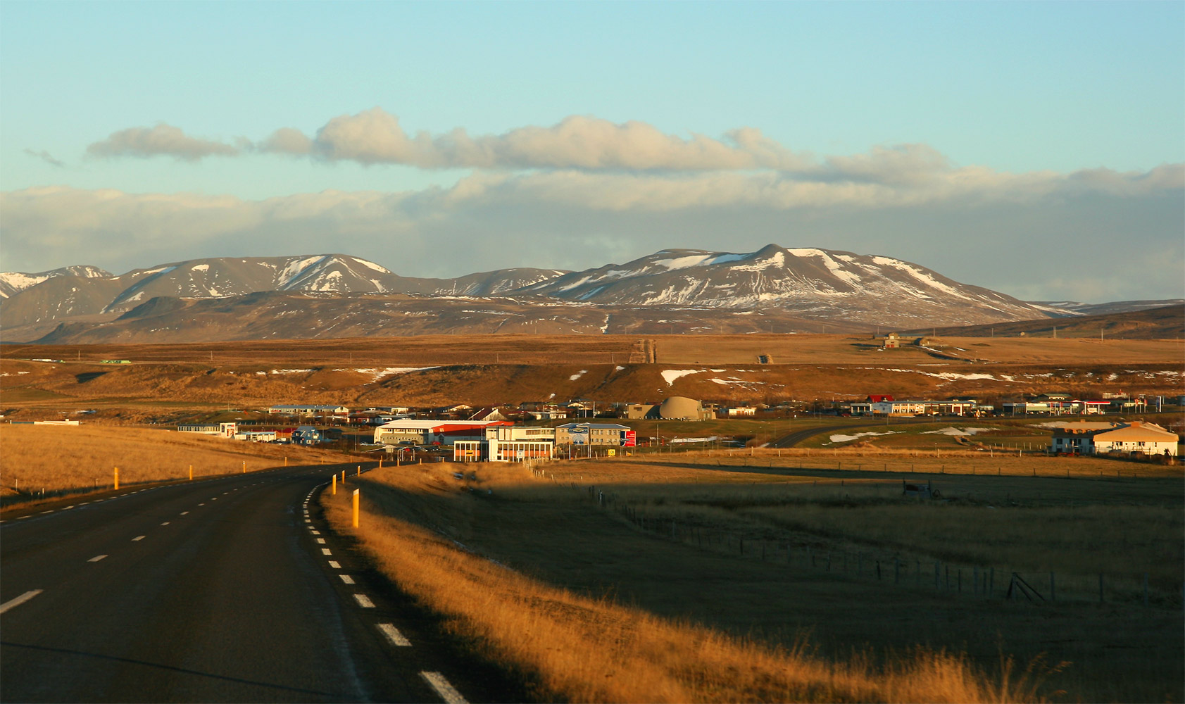 Blönduós, with Hörfell and Árbakkafjall looming on Skagí peninsula, November 21 12:47 Iceland, November 2007 Photo by me user debivort (or friend, with permission given to upload and license freely).